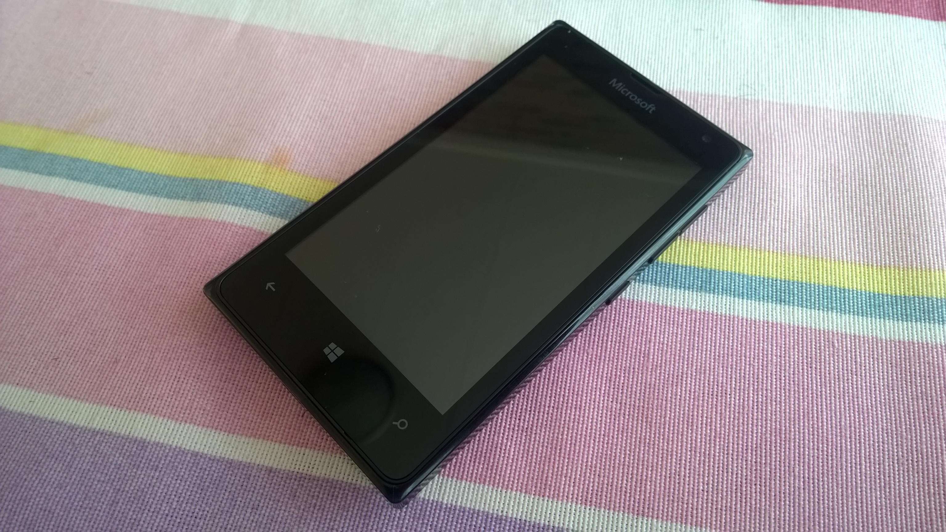 The Microsoft Lumia 532 is a mobile telephone manufactured by Microsoft Mobile Oy.